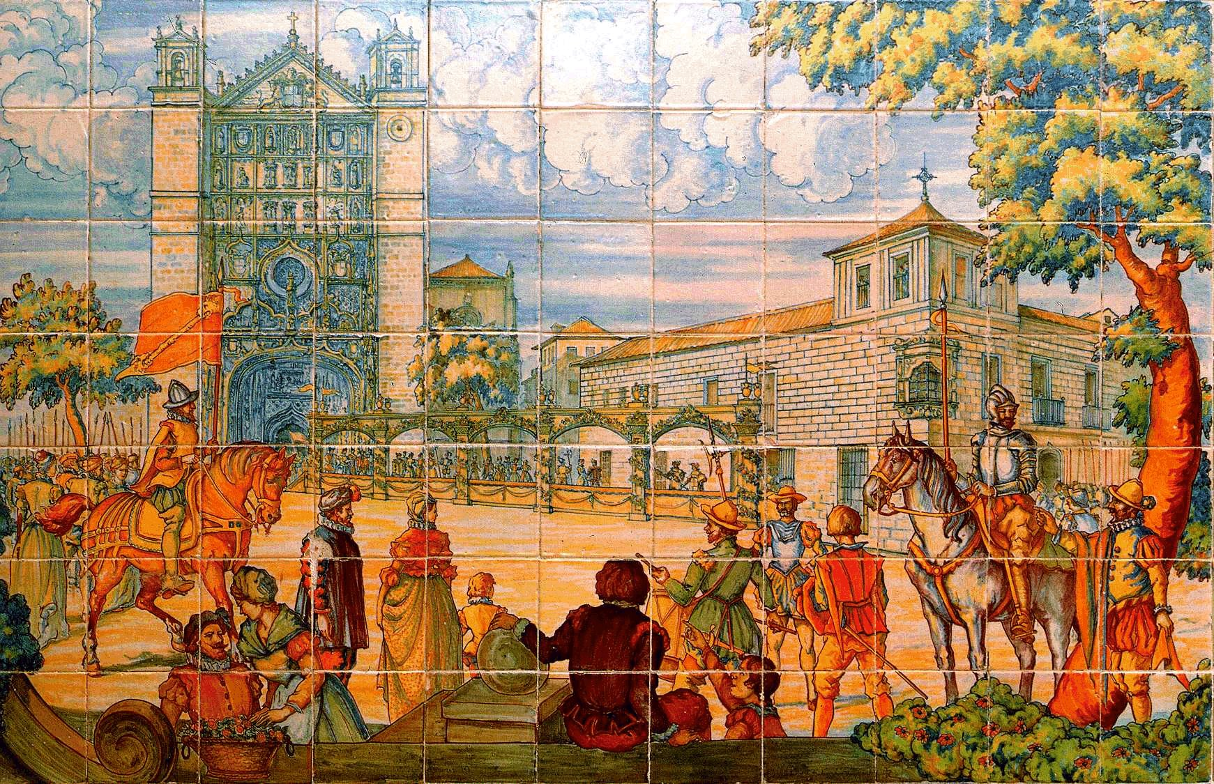 Reales Sitios